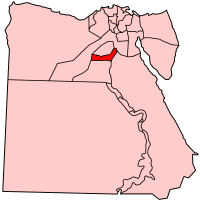 Map of Egypt showing Bani Suwayf (Beni Suef) governorate. Made by User:Golbez based on PD maps.